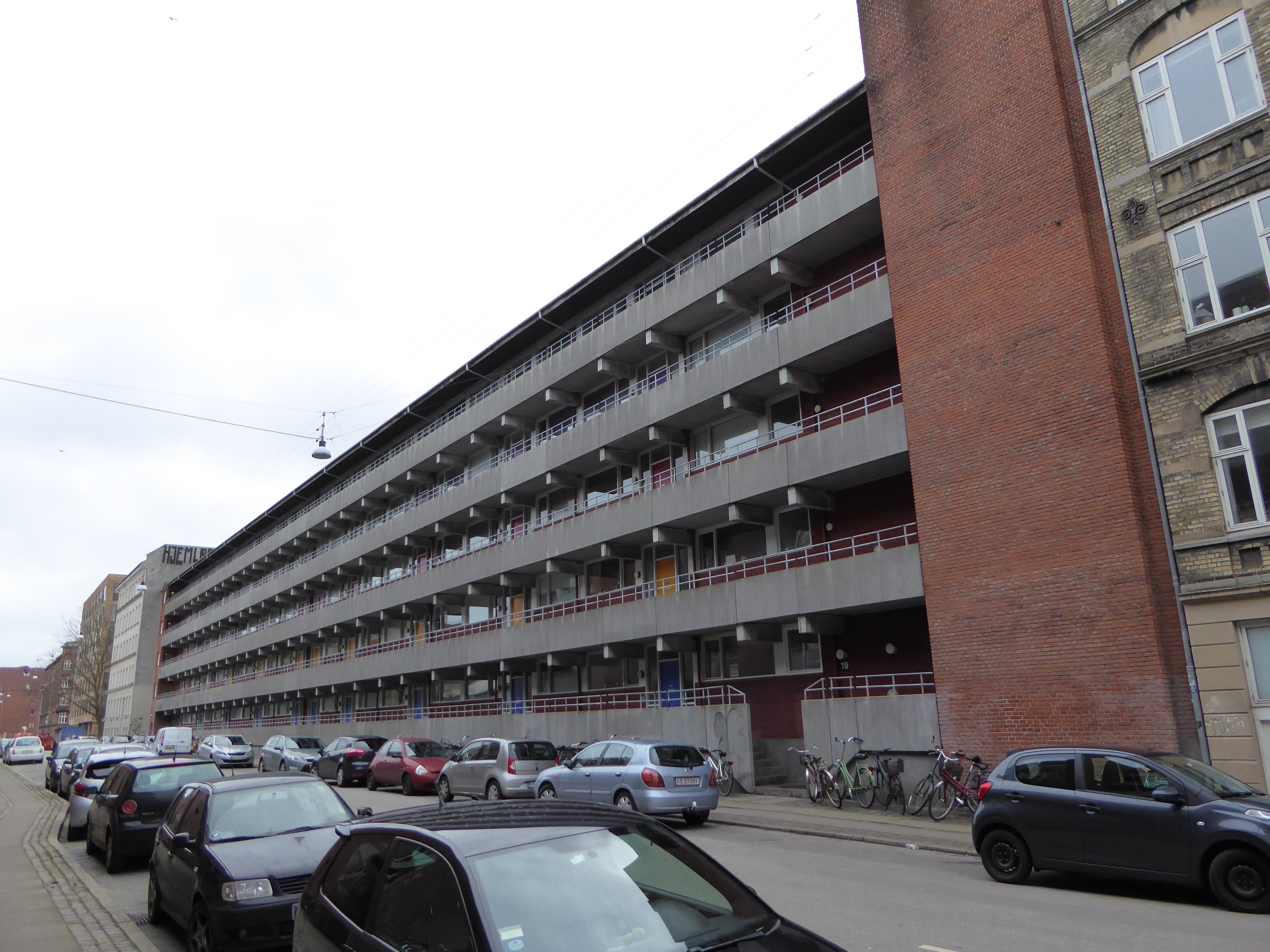 The apartment building Kongsgården at Dagmarsgade in Nørrebro in Copenhagen.